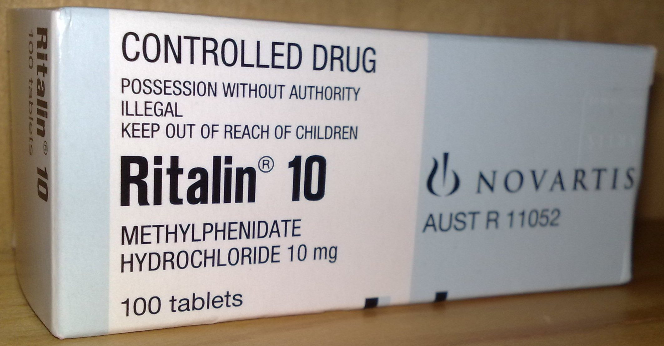 Ritalin